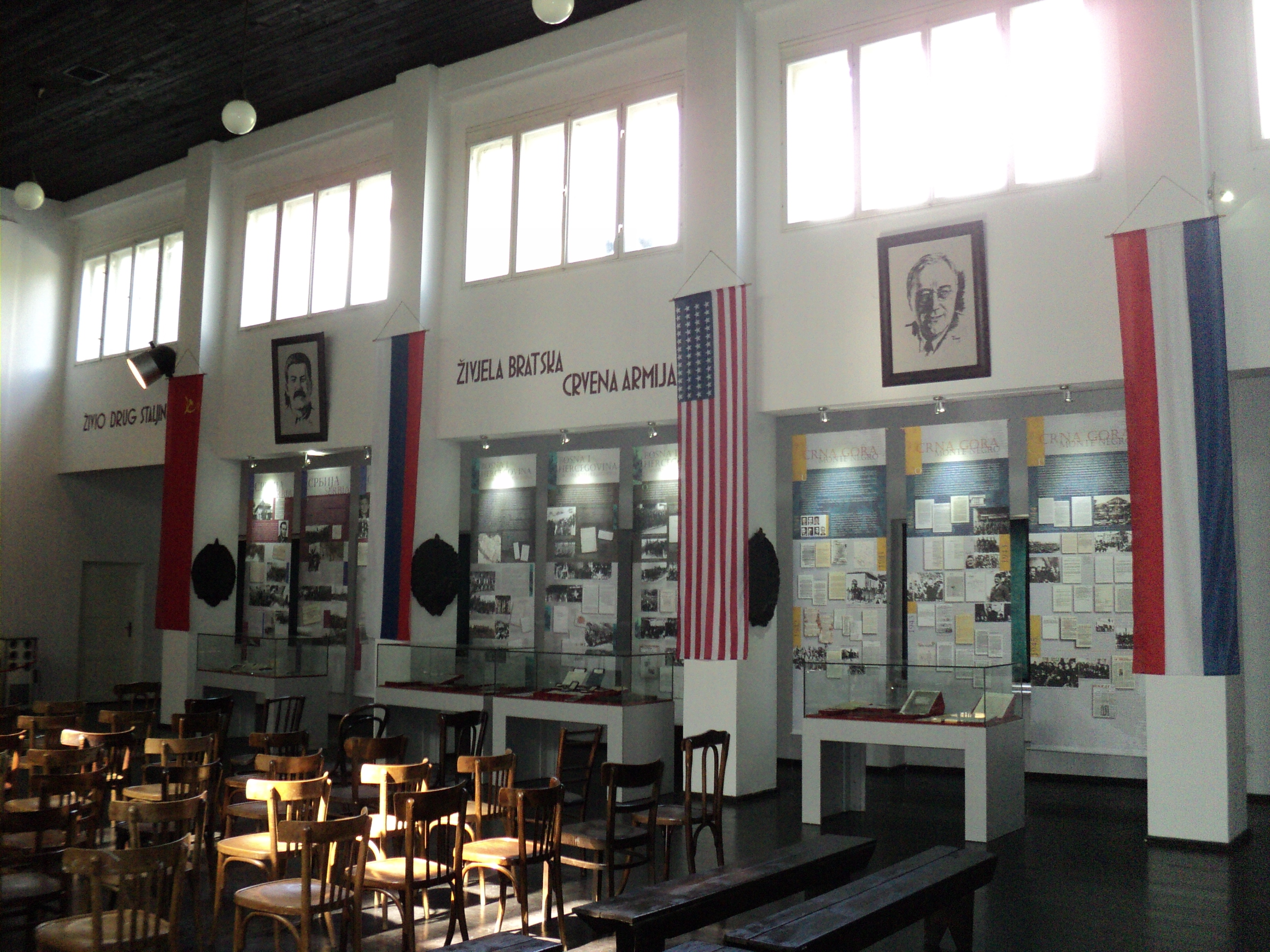 Interior of the AVNOJ Museum in Jajce, Bosnia and Herzegovina.